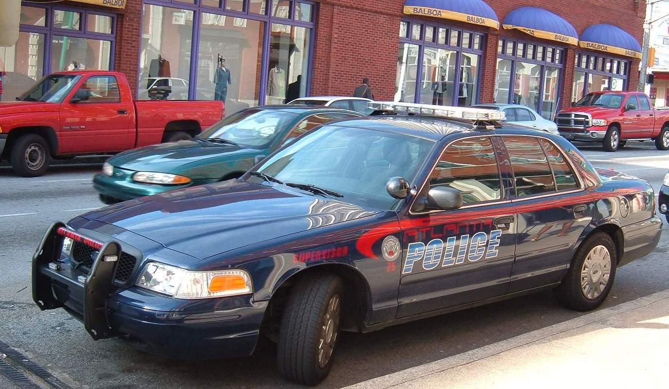 2000 views on 31 January 2010 1000 views by 27/2/09 FCV - Supervisor